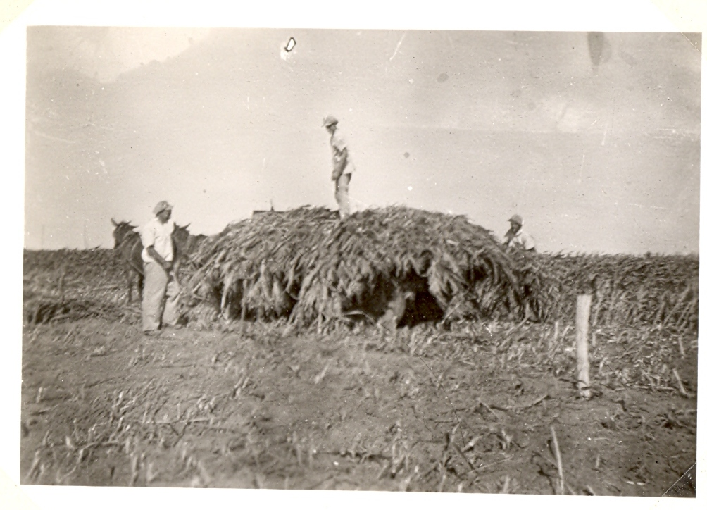 Settlements in Israel